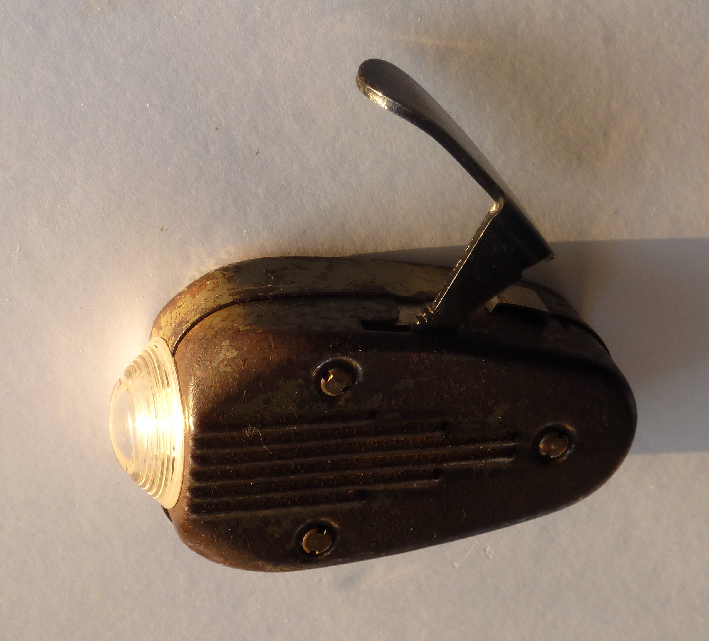 Dynamo torch, of the type made by Philips in the occupied Netherlands during WW2. From the remaining paint, this may have been a Wehrmacht issue torch. Pumping the handle turns a flywheel inside the torch, which turns an electric generator attached to the flywheel, lighting the incandescent light bulb (left). The torch must be pumped continually during use.